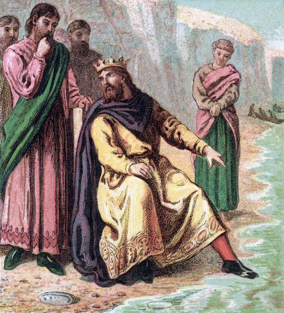 Canute and his courtiers